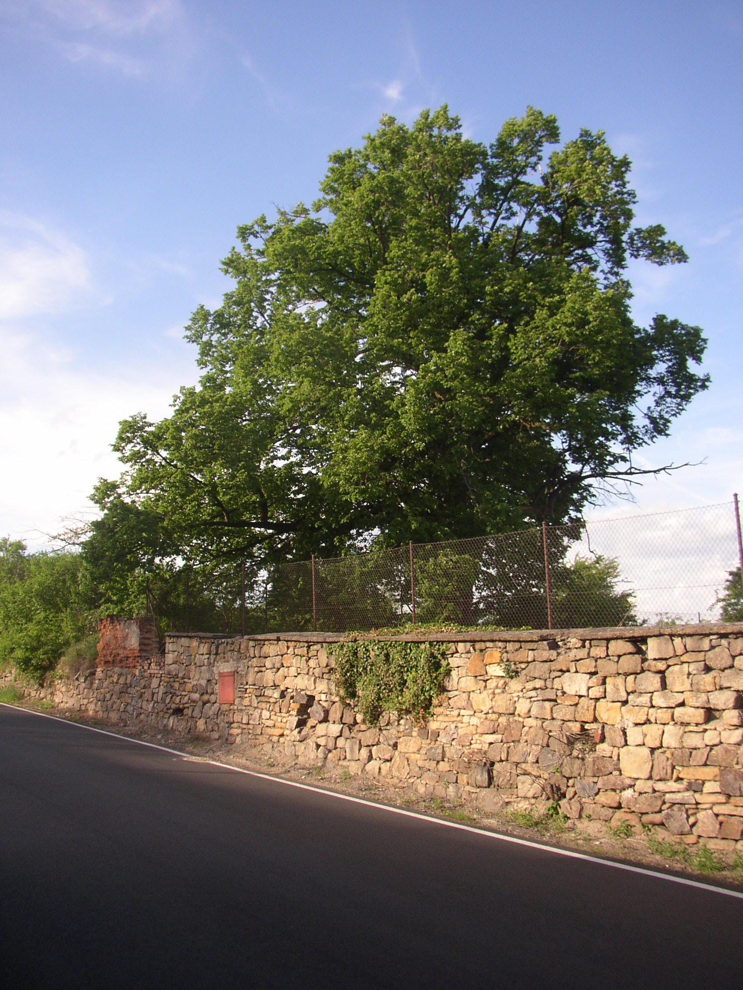 Lípa v Kyšicích ("Lime in Kyšice"), protected example of Small-leaved Lime (Tilia cordata) in village of Kyšice, Kladno District, Central Bohemian Region, Czech Republic.